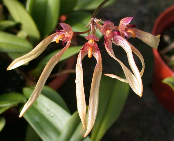 Bulbophyllum longiflorum